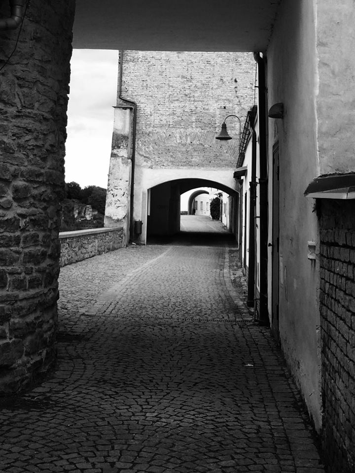 Foglarovky